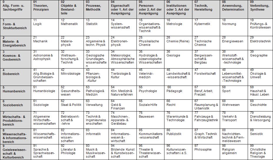 Representation of all knowledge fields of the first two levels of the "Information Coding Classification" ICC